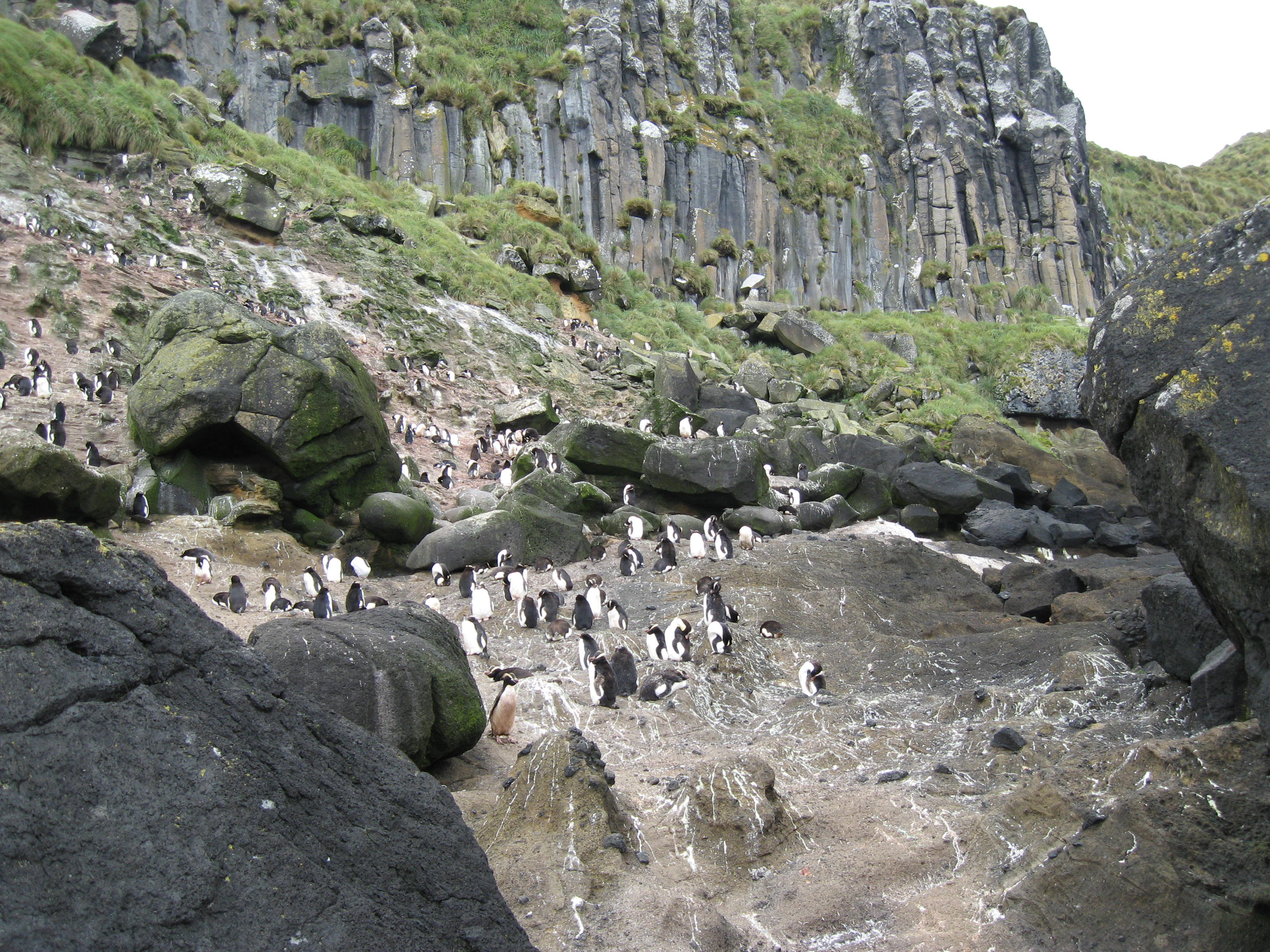 Penguin (Eudyptes sclateri) colony, Anchorage Bay, Antipodes Island, New Zealand